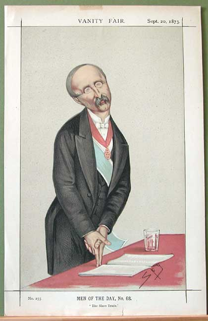 Caricature of Sir Henry Bartle Edward Frere, 1st Baronet. Cation reads "The Slave Trade".